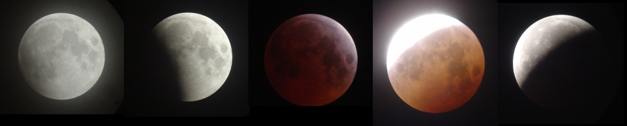 Mosaic of the lunar eclipse of the March 3rd, 2007